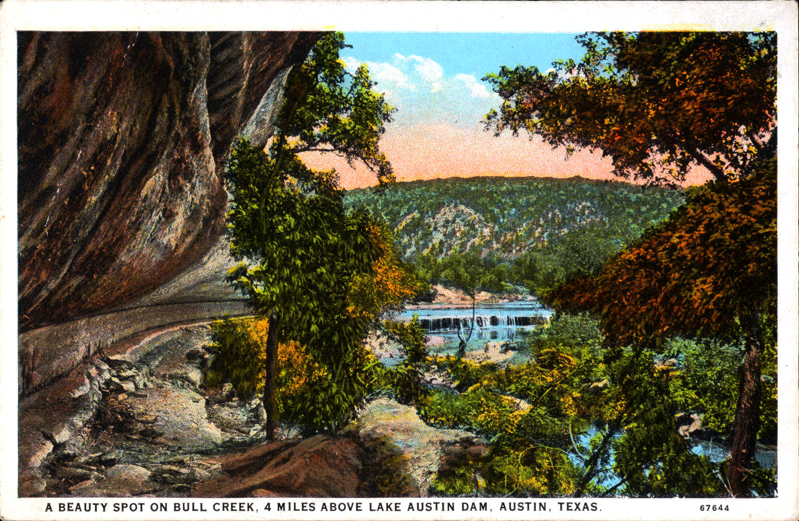 Postcard of Bull Creek, in Austin, Texas. The caption reads, "A BEAUTY SPOT ON BULL CREEK, 4 MILES ABOVE LAKE AUSTIN DAM, AUSTIN, TEXAS".